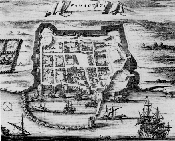 Famagusta port, chalcography